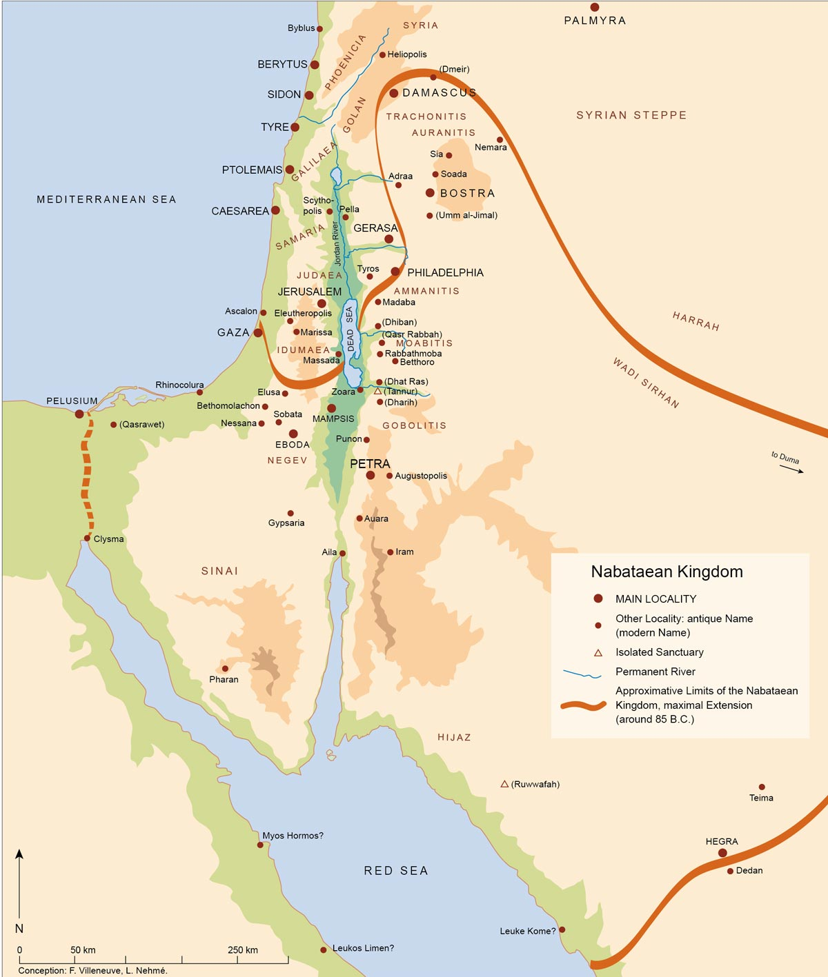 This is the map of the Nabatean Kingdom